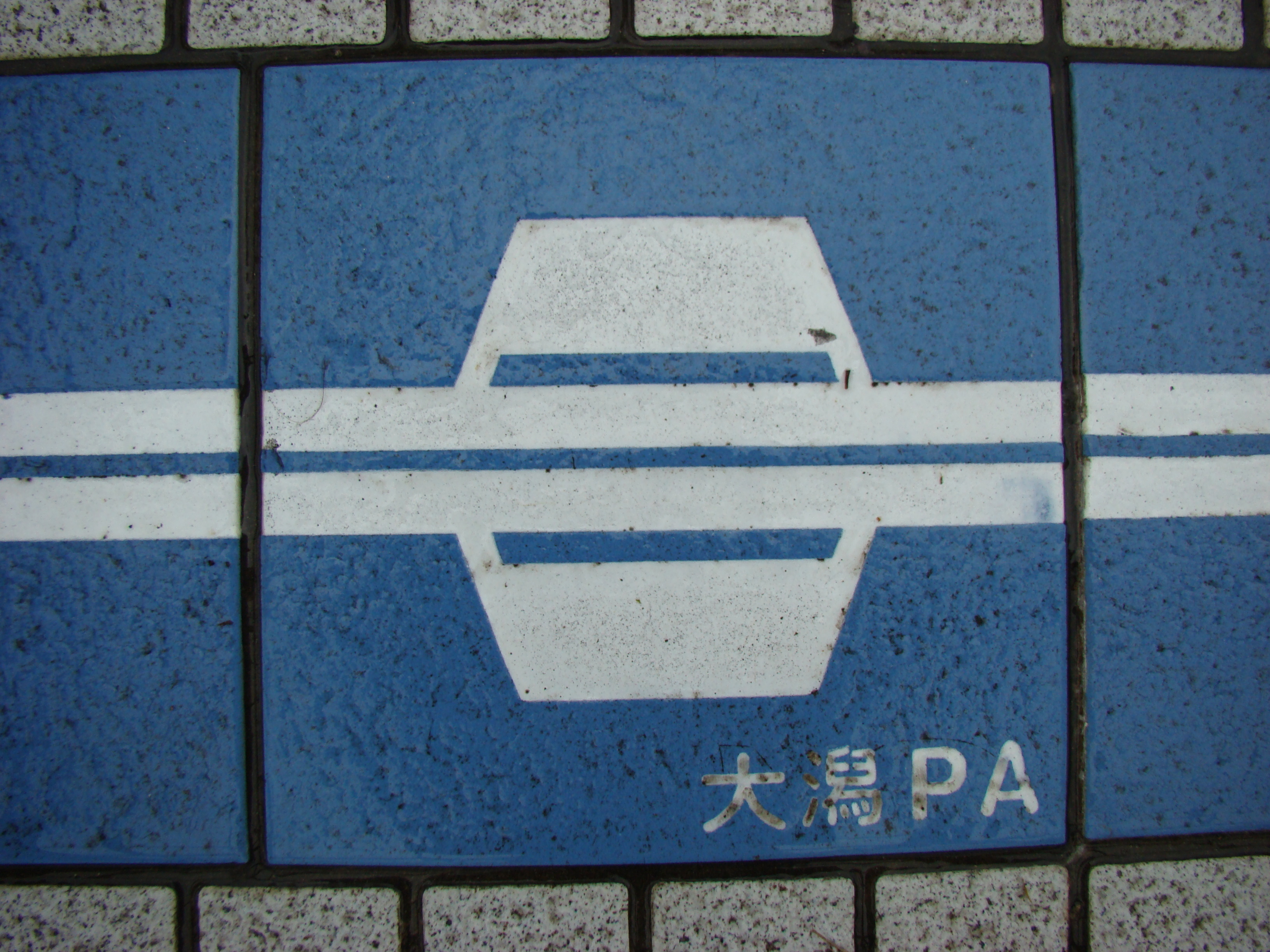 Tile which shows the shape of Ogata Parking Area on the Hokuriku Expressway, installed at Nadachi Tanihama Service Area in Chayagahara, Joetsu City, Niigata Prefecture, Japan